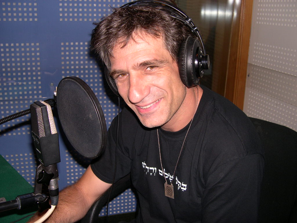 Israeli actor Alon Abutbul